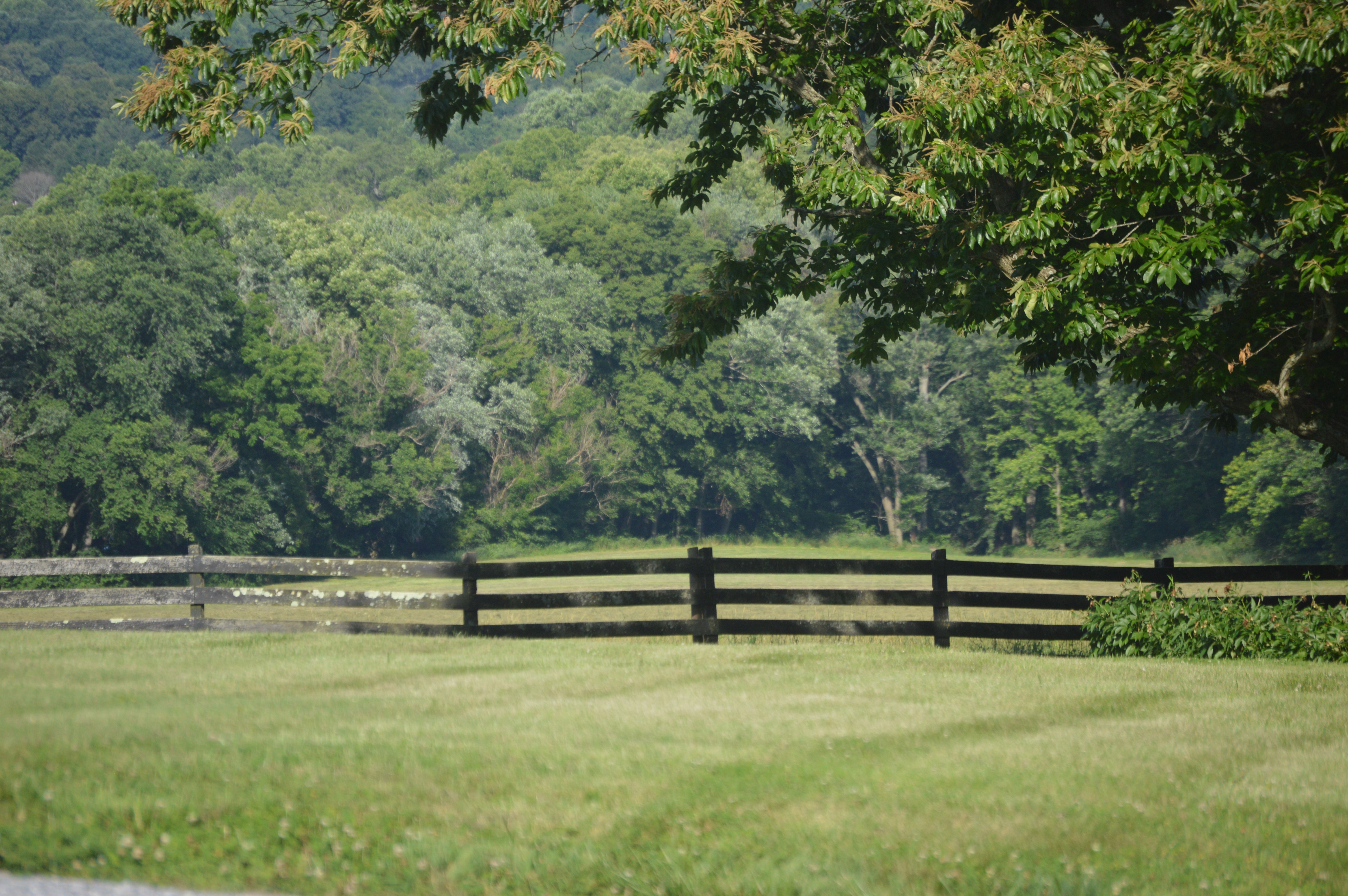 Fields on the right bank of the James River, immediately above the Looney Mill Creek confluence and just southwest of Buchanan, in Botetourt County, Virginia, United States. The distant field is known as the Looney Mill Creek Site; as a major archaeological site, it is listed on the National Register of Historic Places. Photo looks east from Mount Joy Road.